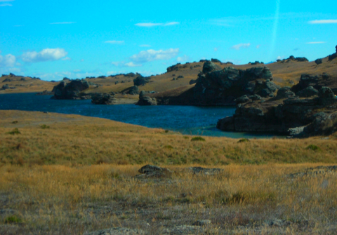 Photographed at Poolburn Reservior, Central Otago, 10 April 2007.